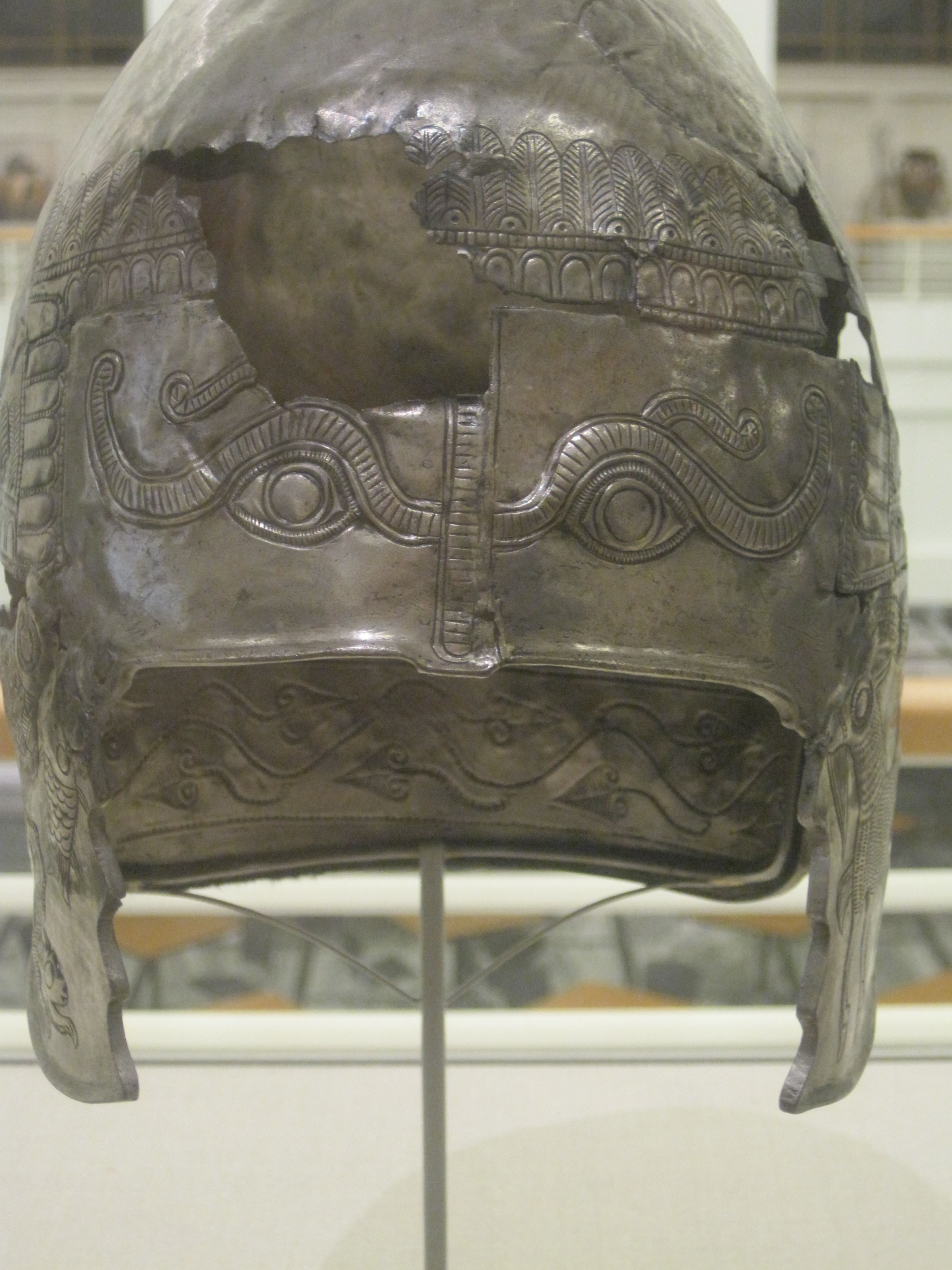 A Geto-Dacian helmet dating from the 4th century BC.